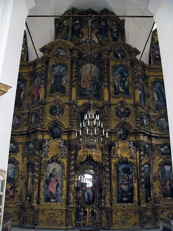 Tritse-Gledensky Monastery near Veliky Ustug. Trotsky Cathedral. The Baroc Iconostas